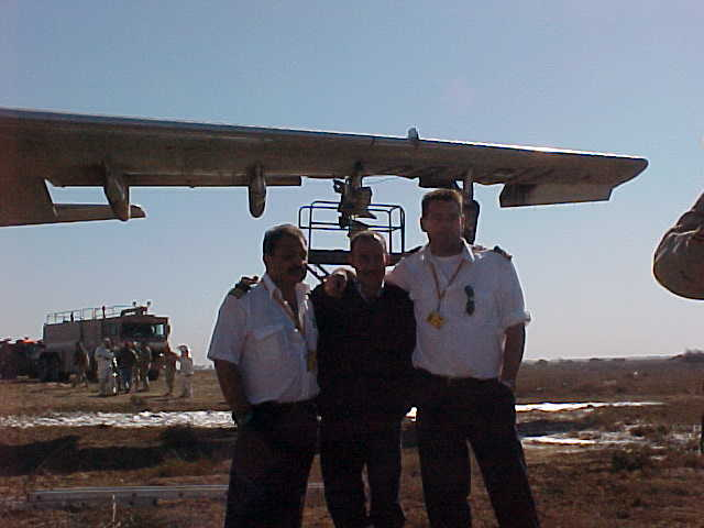 Flight Crew Closeup